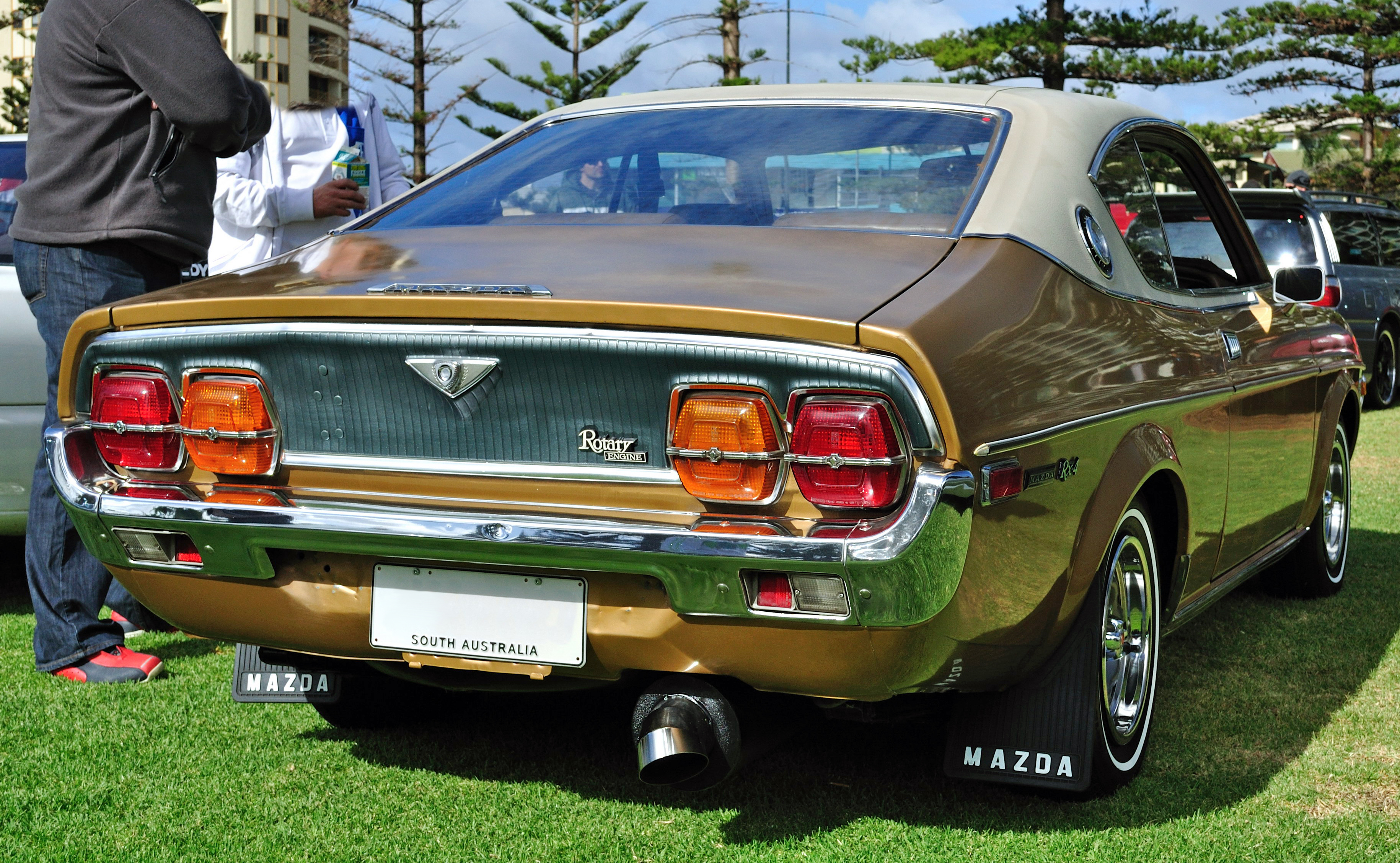 Better than original Mazda RX-4 (Luce) Hardtop at the All Japan Day '09